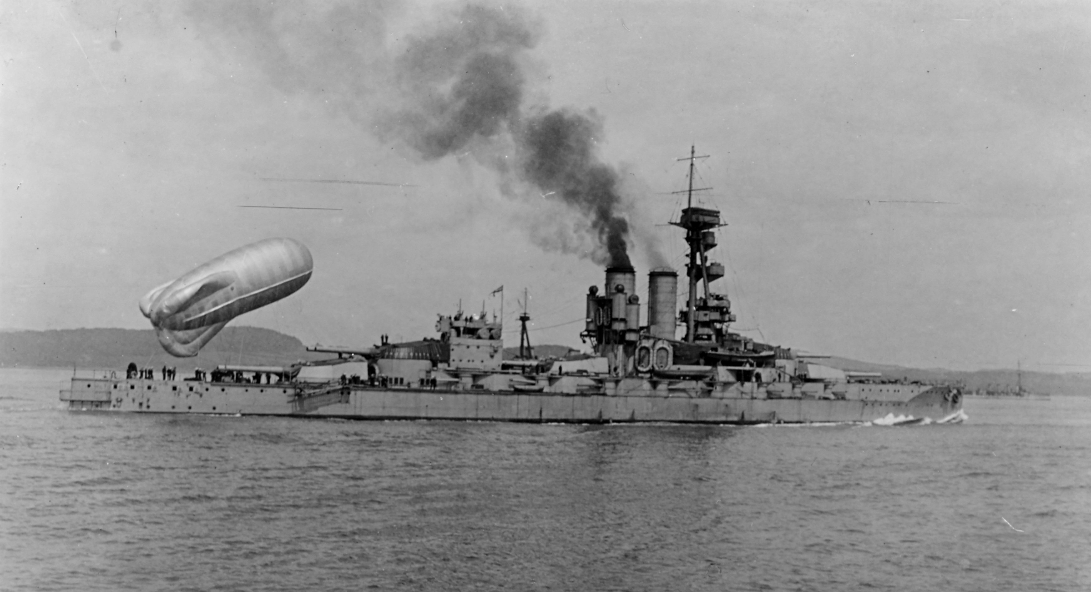 HMS Erin (British Battleship, 1914) Underway in a North Sea harbor, with a kite balloon moored aft, 1918.